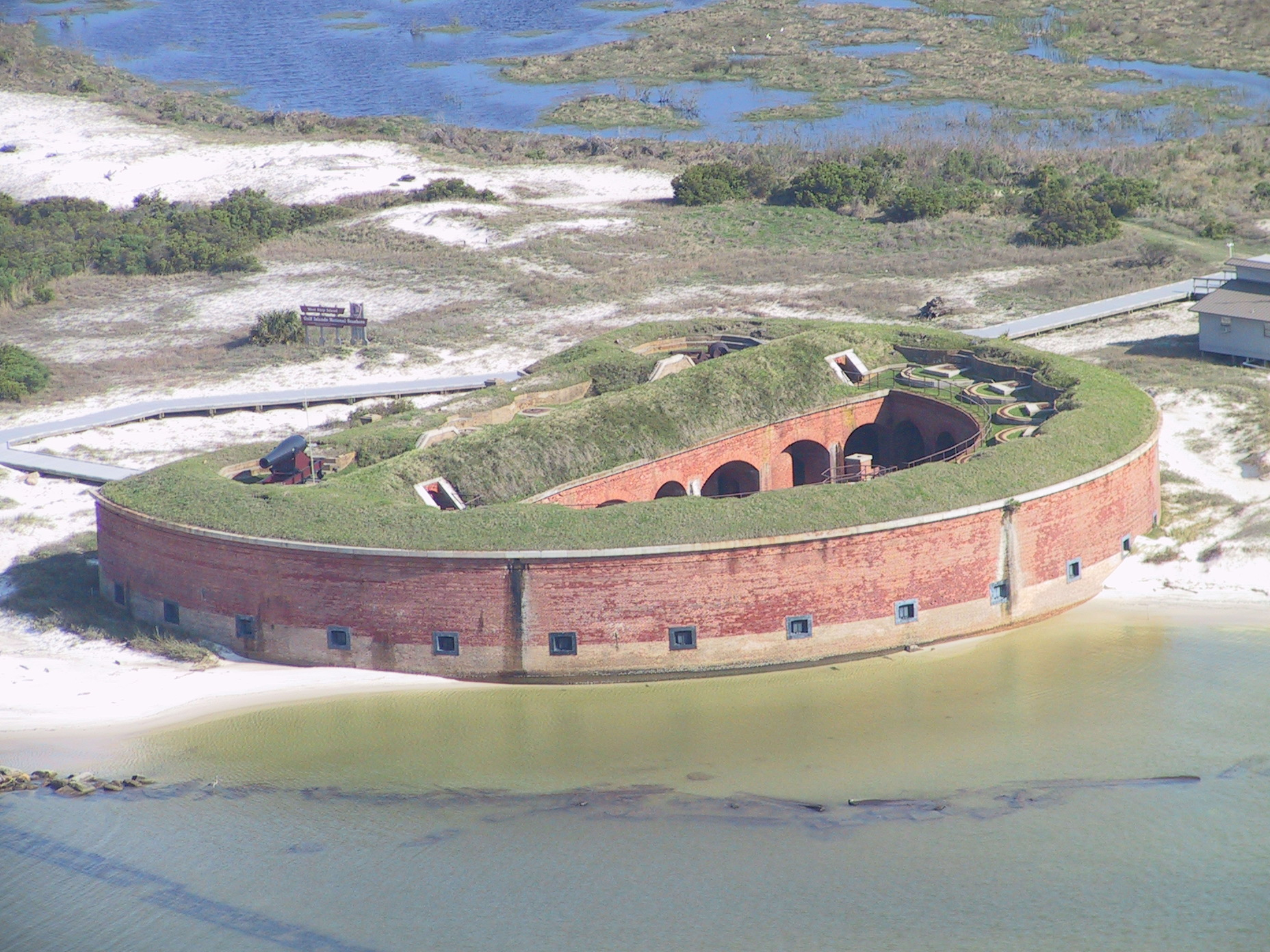 Aerial photo of U.S. Fort Massachusetts on West Ship Island (Mississippi).